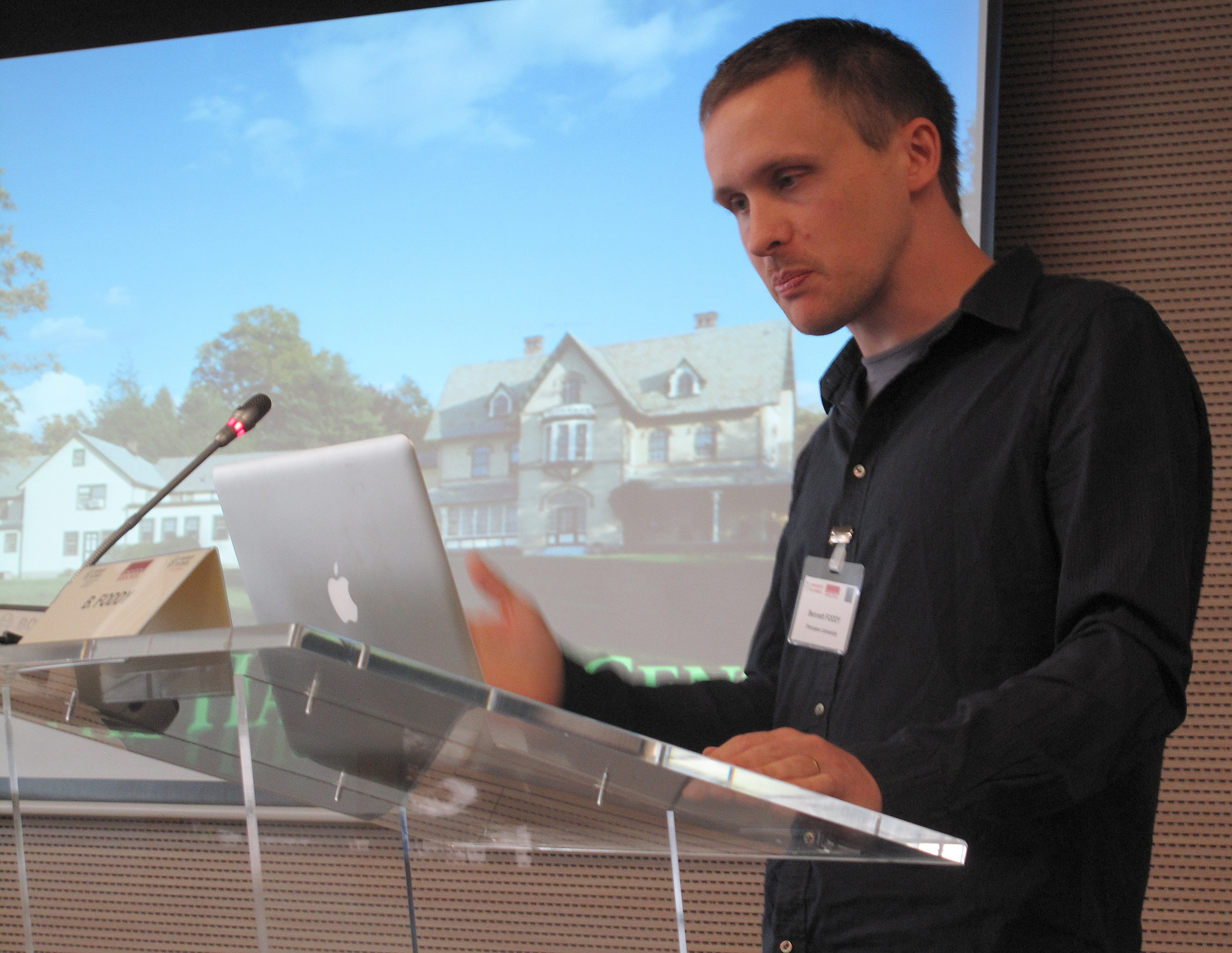 Bennett Foddy Image